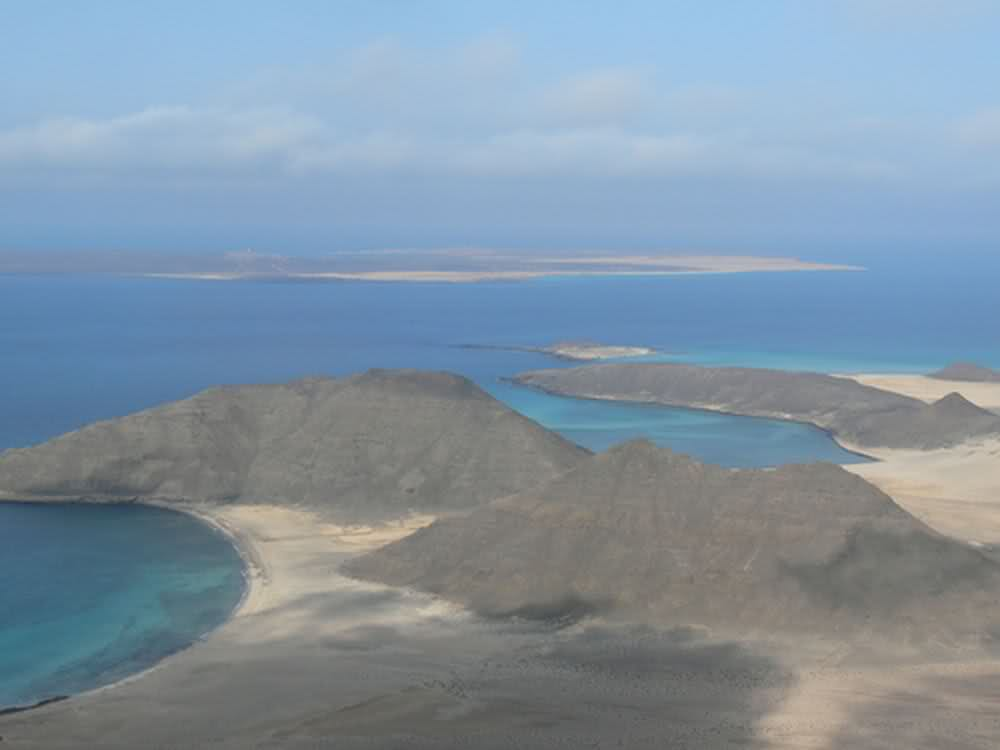 The island of Perim across the 3-km wide Bab Iskender (also known as the Small Strait, the Small Pass, the Narrow Pass), seen from the heights of Ras Meheli (also known as Cape Bab-el-Mandeb, the Bab-el-Mandeb Peninsula, Sheikh Said, Sheikh Siyed) on the Yemeni mainland. The tip of the peninsula is made of a number of rocky promontories. Ras Sheikh Said is the westernmost of those promontories but the whole area is often called Sheikh Said. The Perim Lighthouse and associate buildings can be seen faintly towards the left of the photograph.